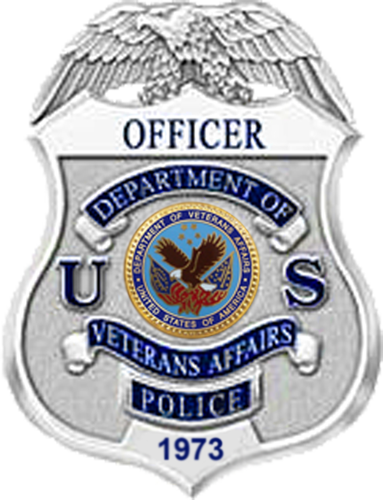 USDVAP Badge